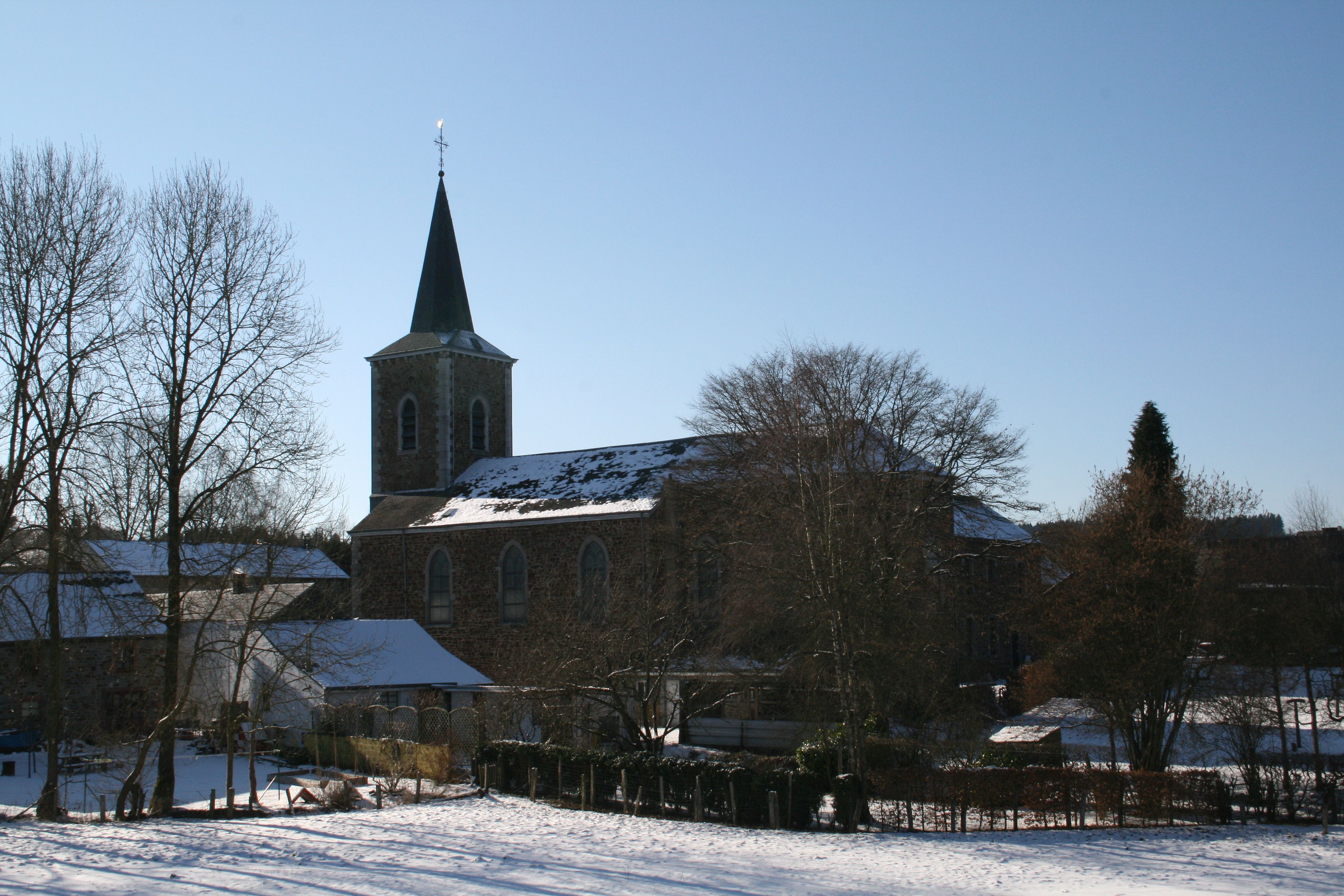 Journal (Tenneville) (Belgium), the Saint Joseph church (1864).